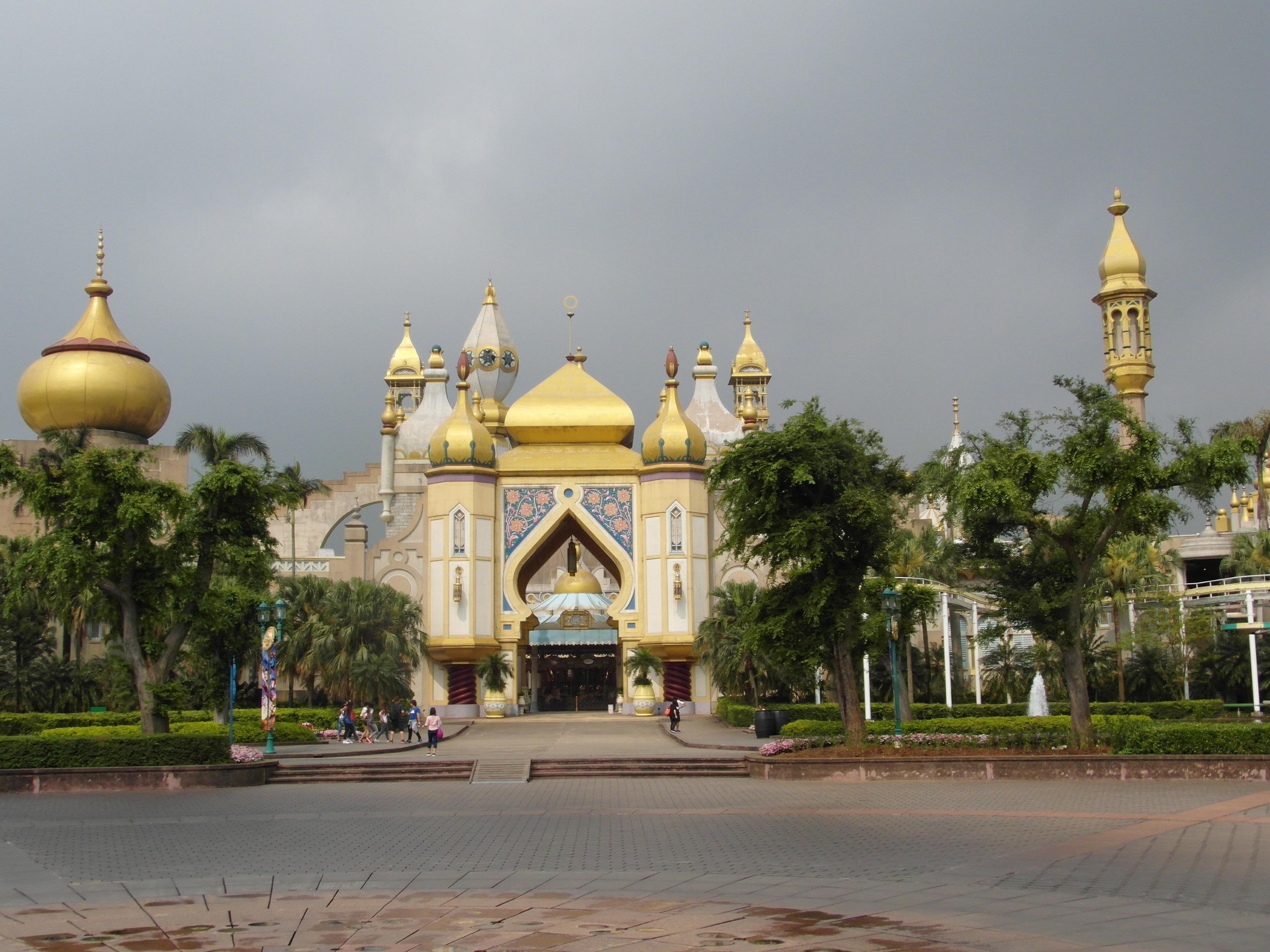 Leofoo Village